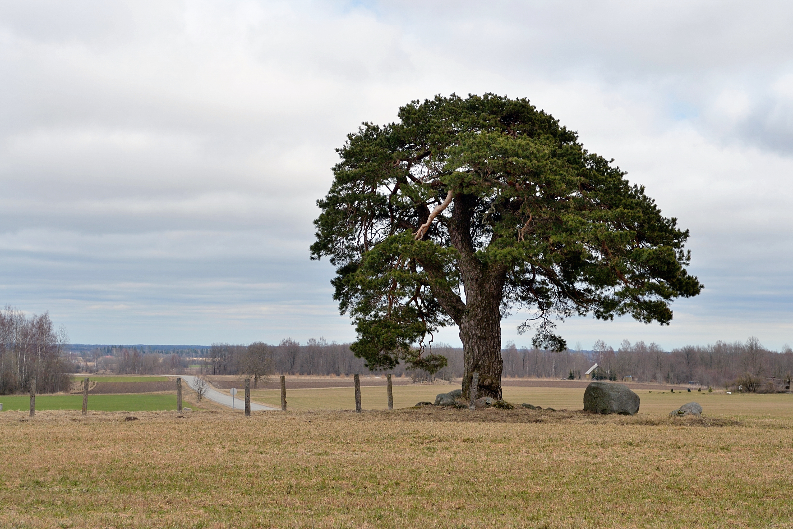 Laekvere pine (Pinus sylvestris)